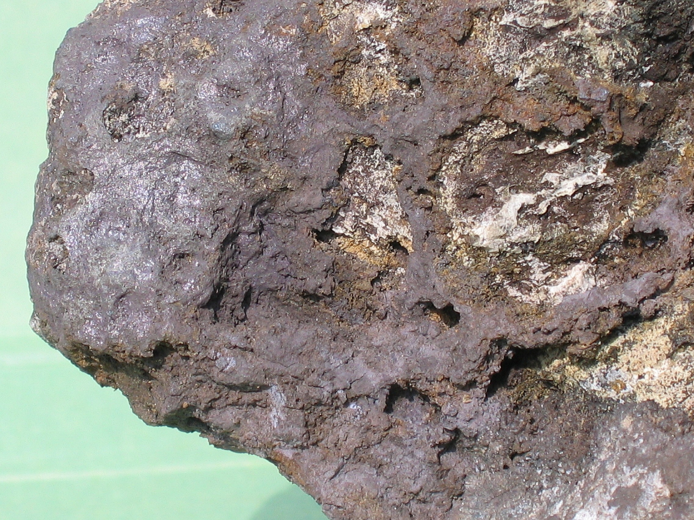 Chlorargyrite Locality: Theuerdank Mine, St Andreasberg, St Andreasberg District, Harz, Lower Saxony, Germany Original description: Chlorargyrite step, variety "buttermilk ore", dried-in condition. Detailed section (Width: 5 cm). I found the step by myself in 1995 on the old pit Theuerdank in St. Andrew on the berry mountain. When it came into daylight, it was white like snow, but after about 45 minutes, it became so gray-blue, as it is to see now. The blue-gray areas are in the form of buttermilk ore, the light to dark brown areas are "earthy brown silver". The matrix of the step consists of a quartz band and calcite. The buttermilk ore has two special features: On the one hand, once upon a time it was liquid and on the other hand, it has a photochromic character.